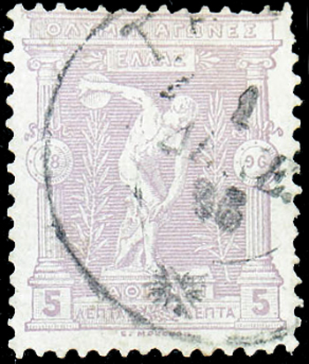 Stamp of Greece, The First Olympic Games, 1896, 5 l.